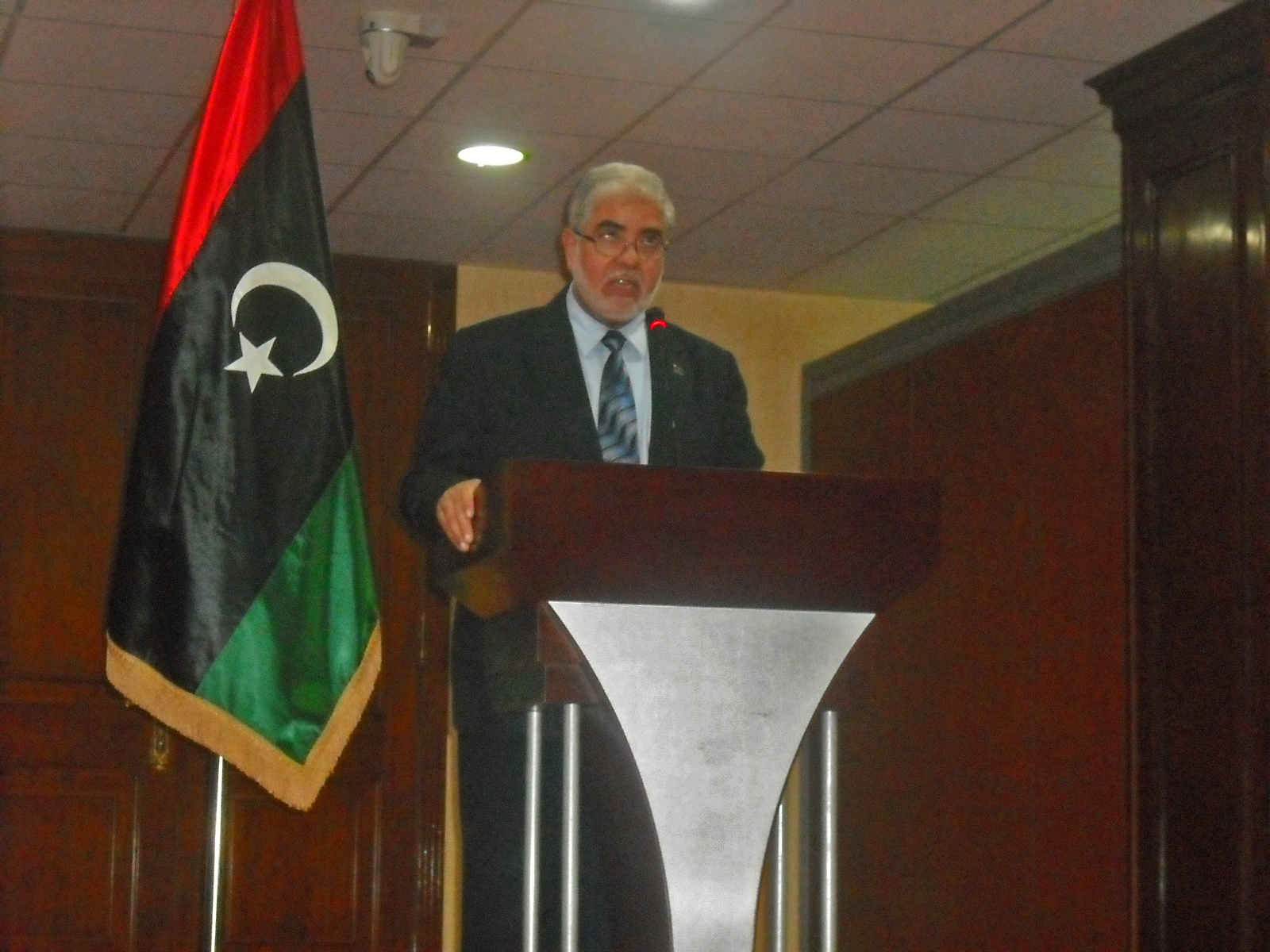 Libyan Deputy Premier Mustafa Abu Shagur stresses that government "will be decided by the Libyan people through the constitution". النائب الأول لرئيس الوزراء الليبي مصطفى أبو شاقور أكد أن "شكل نظام الحكم سوف يقرره الليبيون من خلال الدستور". Le vice-Premier ministre libyen Mustafa Abu Shagur souligne que le gouvernement "sera nommé par le peuple libyen au travers de la constitution".